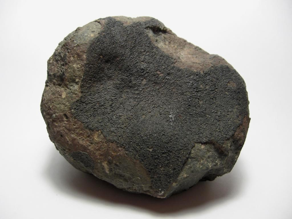 A 520g individual of the Allende meteorite shower. Allende is a carbonaceous chondrite (CV3) that fell on 1969 February 8 in Mexico. This specimen is approx. 8 centimeters wide. Note the patches of dull black fusion crust. Severals condrules and CAIs can be seen embedded in the gray matrix.